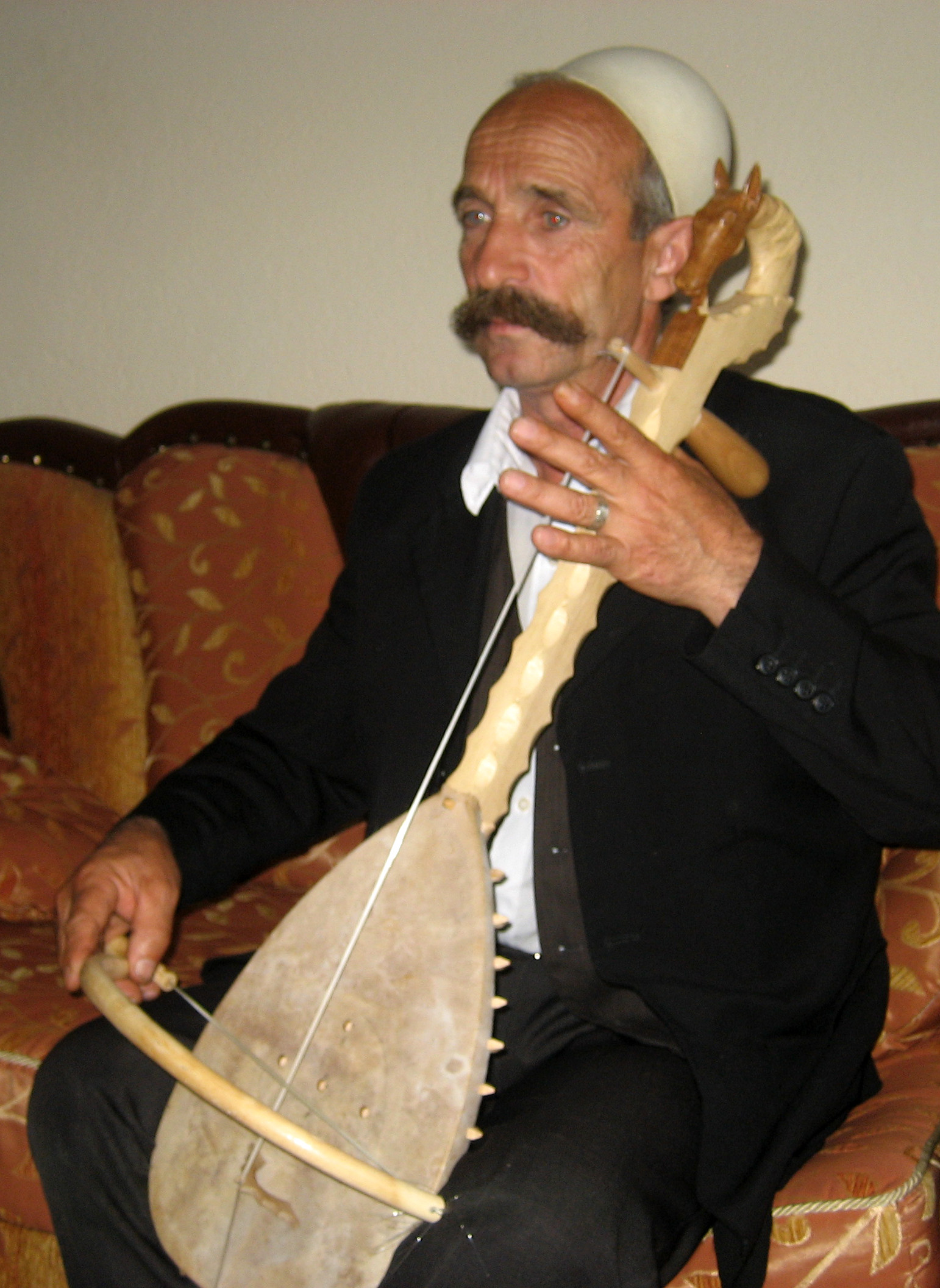 Isë Elezi, lahutari from Rugova, Kosovo